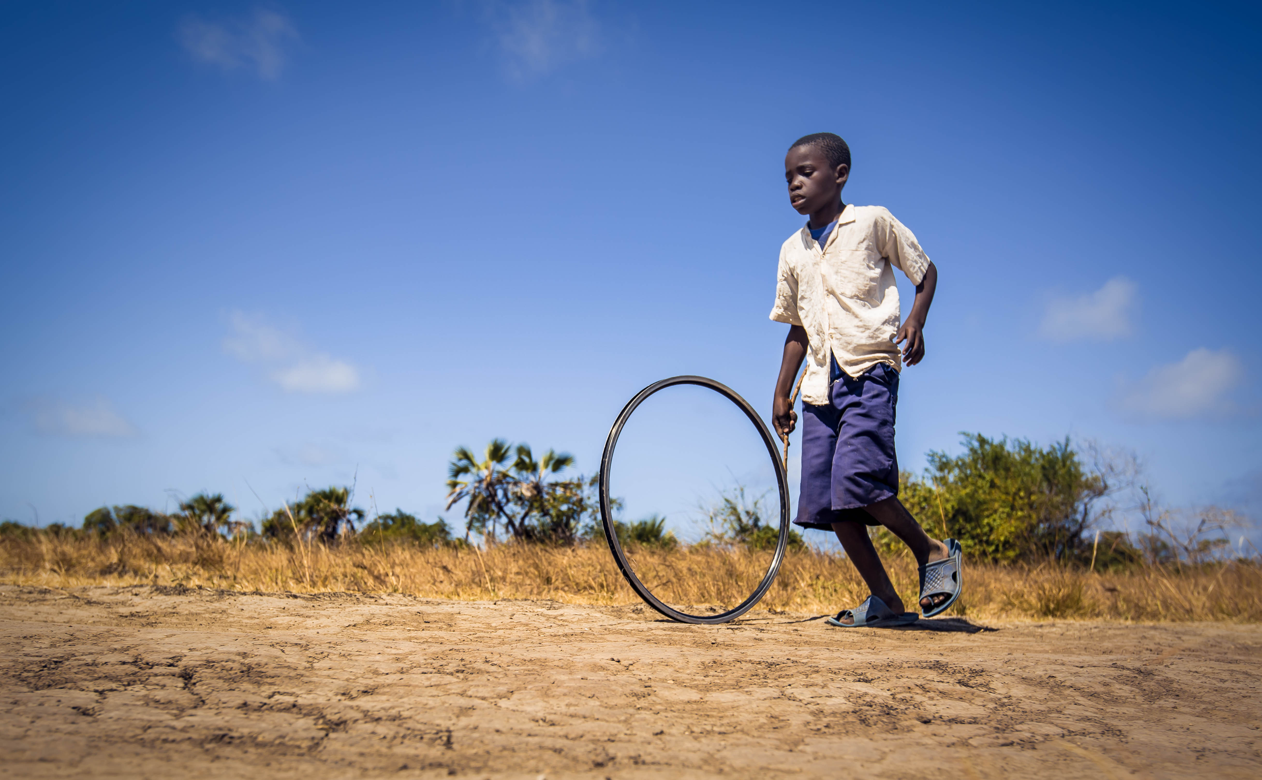 here is a photo of a young boy named Ayubu (9) playing with his bicycle tire rim, having a rim makes Ayubu have a soft way of getting back home through playing with it all the way until he reaches home. Kiswahili: hapa ni picha ya mvulana mdogo aitwaye Ayubu (9) anayecheza na ringi ya tairi, ringi hili hufanya Ayubu awe na njia nyembamba ya kurudi nyumbani kwa kucheza nayo njia yote hadi afikapo nyumbani. This is an image with the theme "Play" from: Tanzania